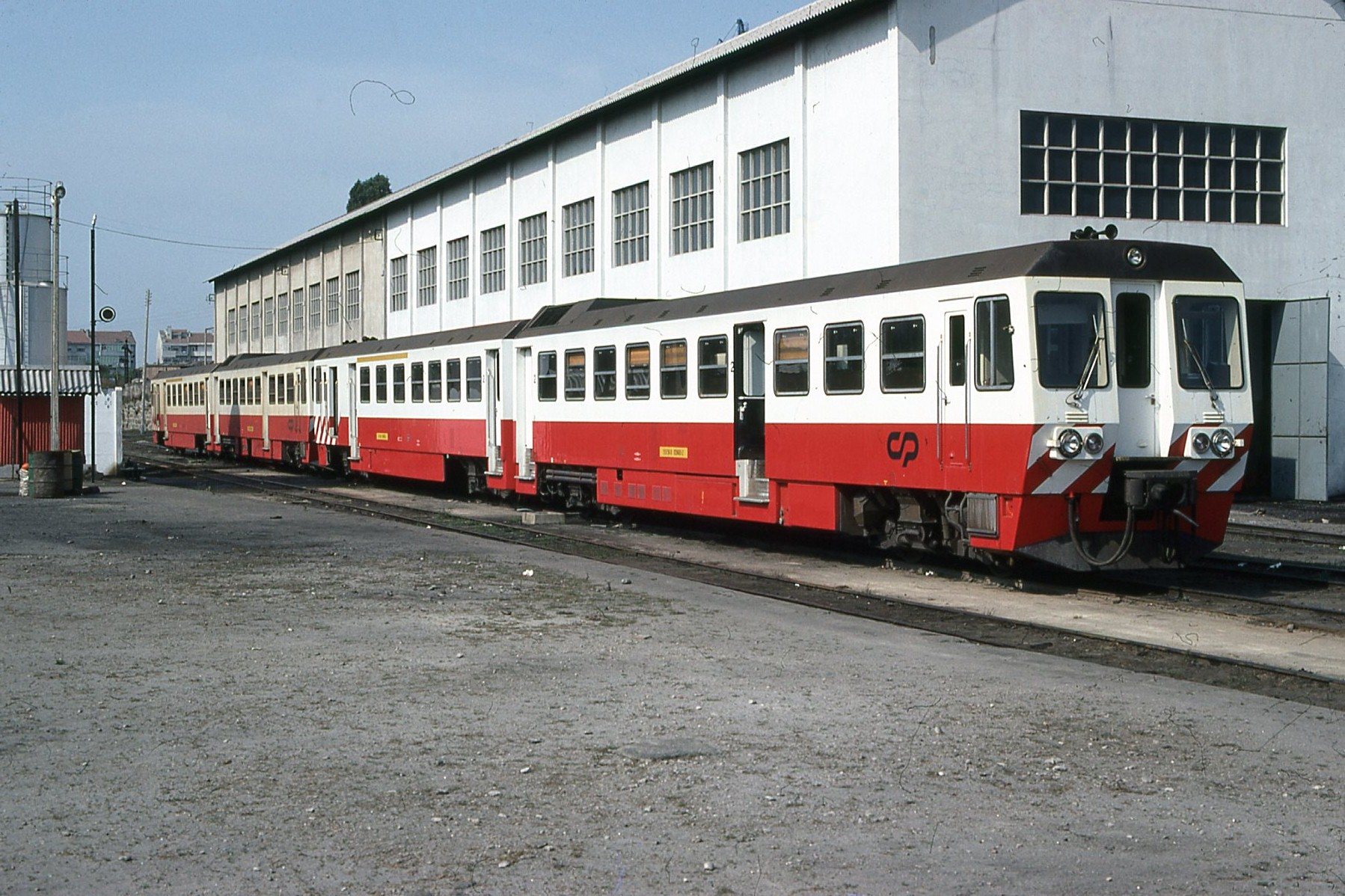 DMU class 9600 train at Boavista train station, Porto, Portugal